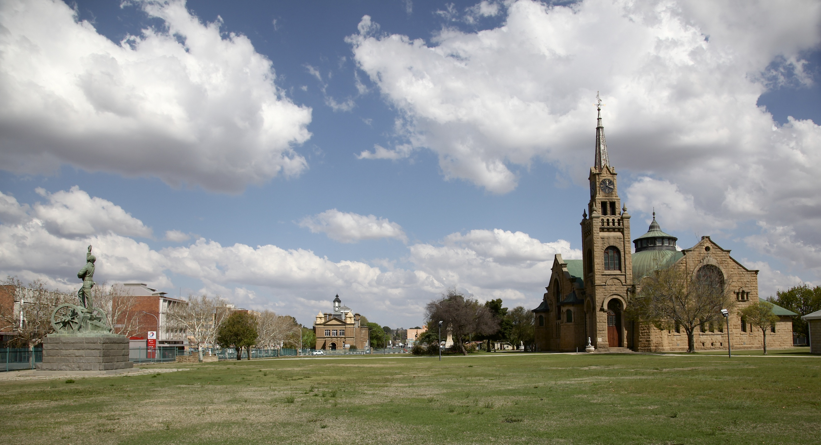 Nederduitse Gereformeerde Mother Church, Church Square, Kroonstad This media shows a South African Protected Site with SAHRA file reference 9/2/324/0016.